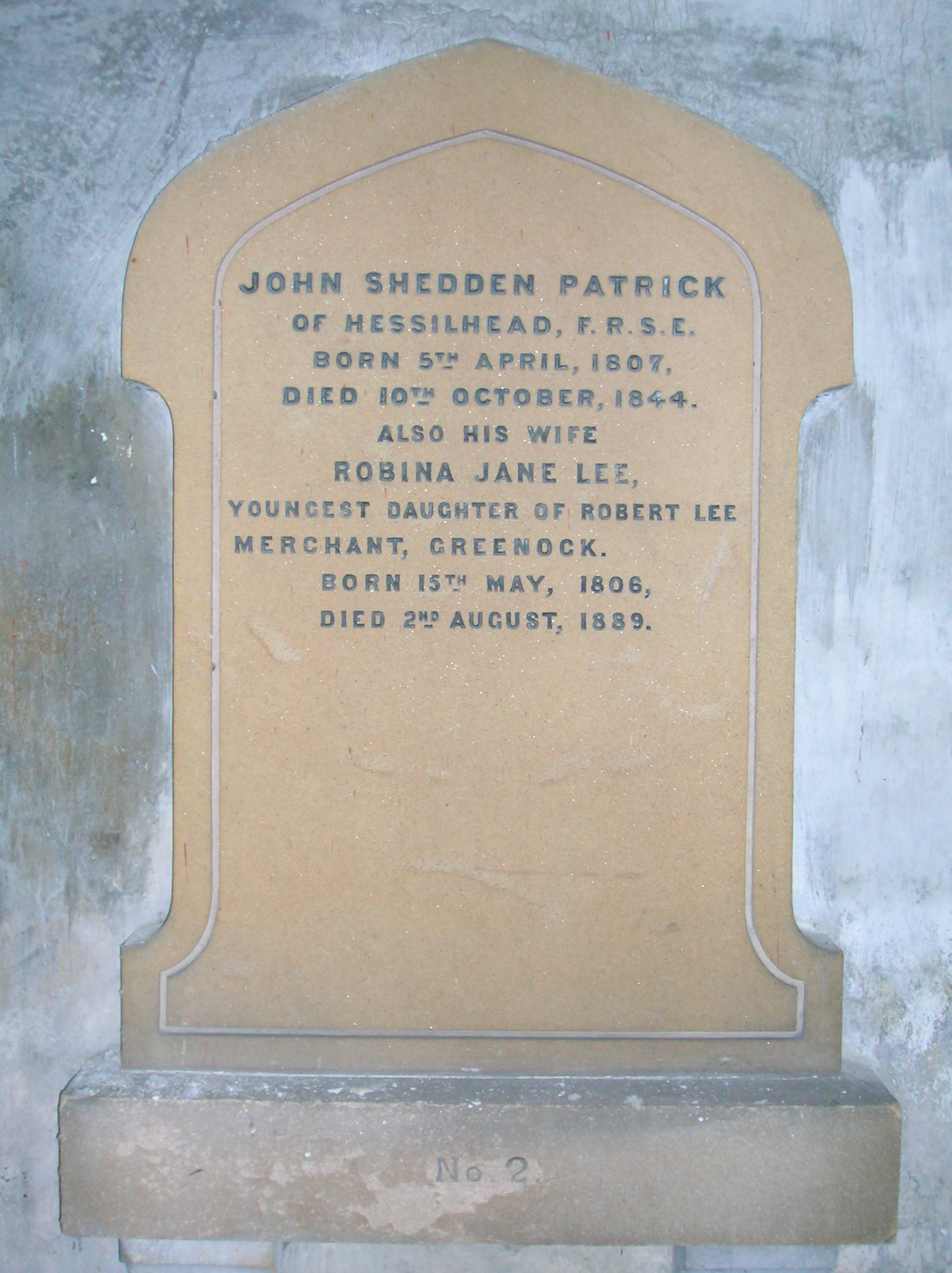 John Shedden Patrick of Hessilhead, Ayrshire, Scotland